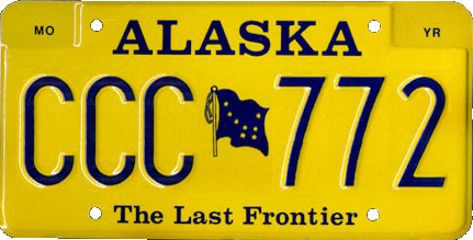 Alaska license plate, 1982; 1981–97 series